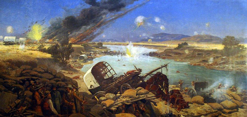 The battle and siege of Paardeberg 17-27 February 1900